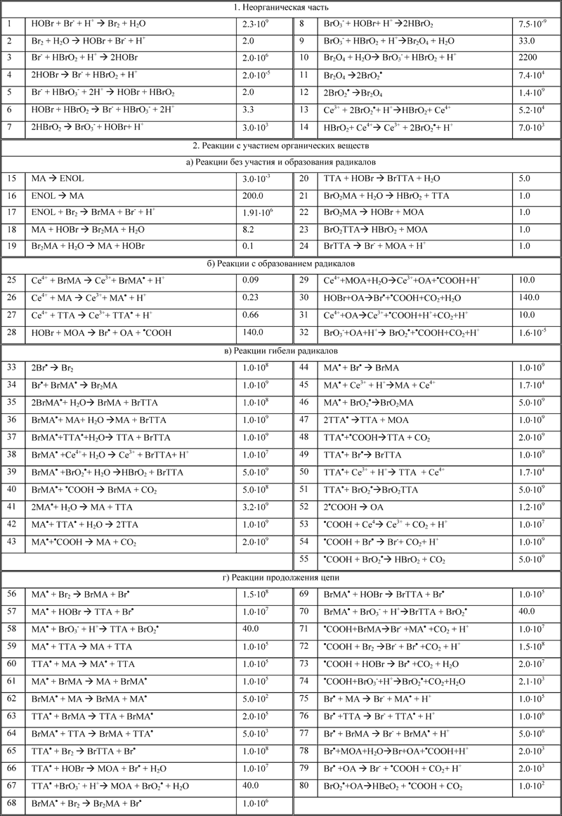 80-stage reaction mechanizm of the Belousov-Zhabotinsky reaction from Gyorgyi L., Turanyi T., Field R.J. Mechanistic Details of the Oscillatory Belousov-Zhabotinskii Reaction // J.Phys.Chem. - 1990. - V.94. - №.18. - P.7162-7170.